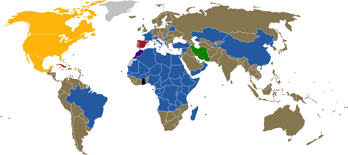 2026 world cup bid voting result: Unity bid (Canada-Mexico-USA) Morocco bid None of the bids Abstension Sanctioned Host Country Unity bid ([Canada-Mexico-USA) or Unincorporated territory (Guam, Puerto Rico and US Virgin Islands) Morocco Not is a FIFA member